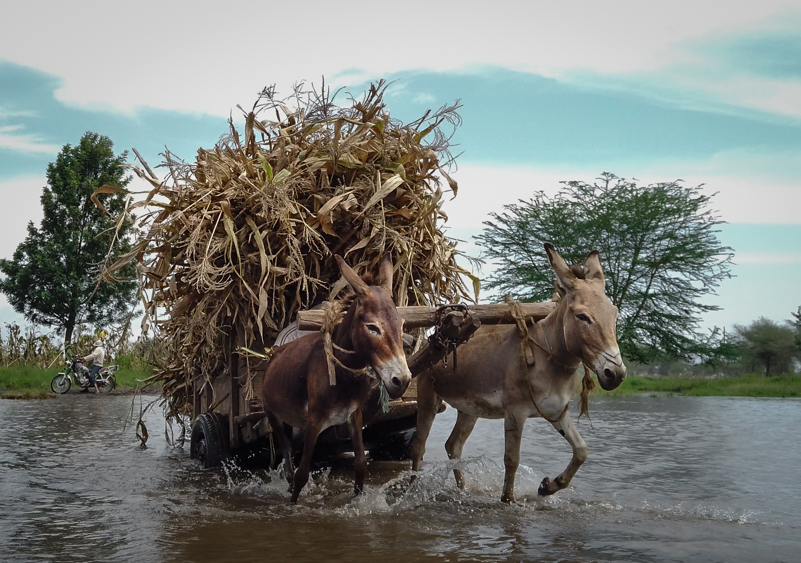 Two donkeys are puling a cart loaded with hay through a water stream during the rain season in Boma, Moshi, Tanzania. This is an image with the theme "Africa on the Move or Transport" from: Tanzania